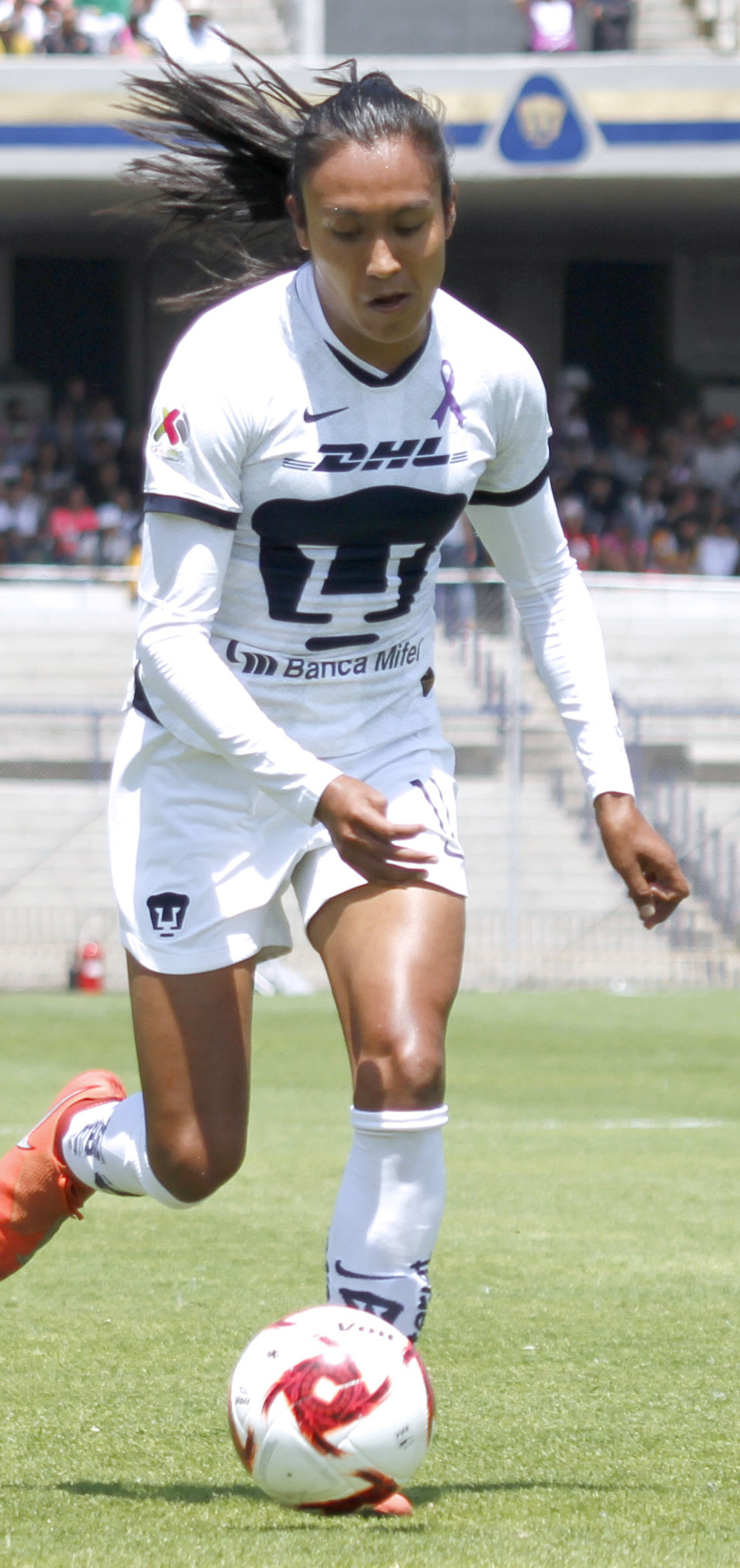 Football players Mariela Jiménez and Brenda León playing at Estadio Olímpico Universitario in Mexico City. 14 March 2020. Picture by Maritza Rios / Secretaria de Cultura de la Ciudad de Mexico.